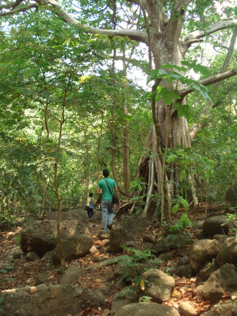 Thilo Deininger's National Park